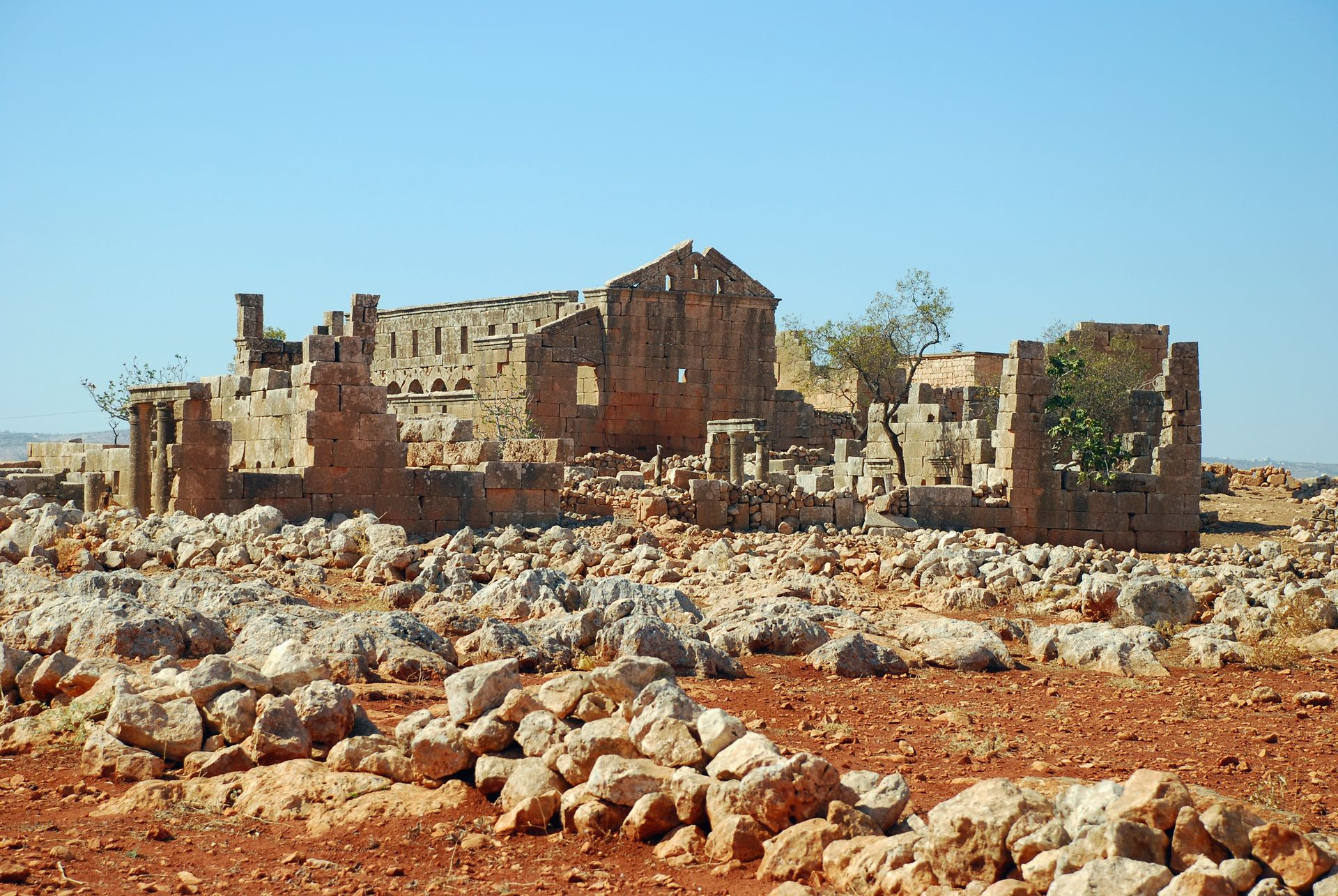 Ruweiha, dead city in Syria. First basilica from southeast